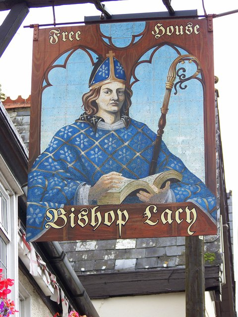 Sign for the Bishop Lacy public house in Chudleigh, Devon. Edmund Lacey was Bishop of Exeter 1420-1455, and was buried in Exeter Cathedral